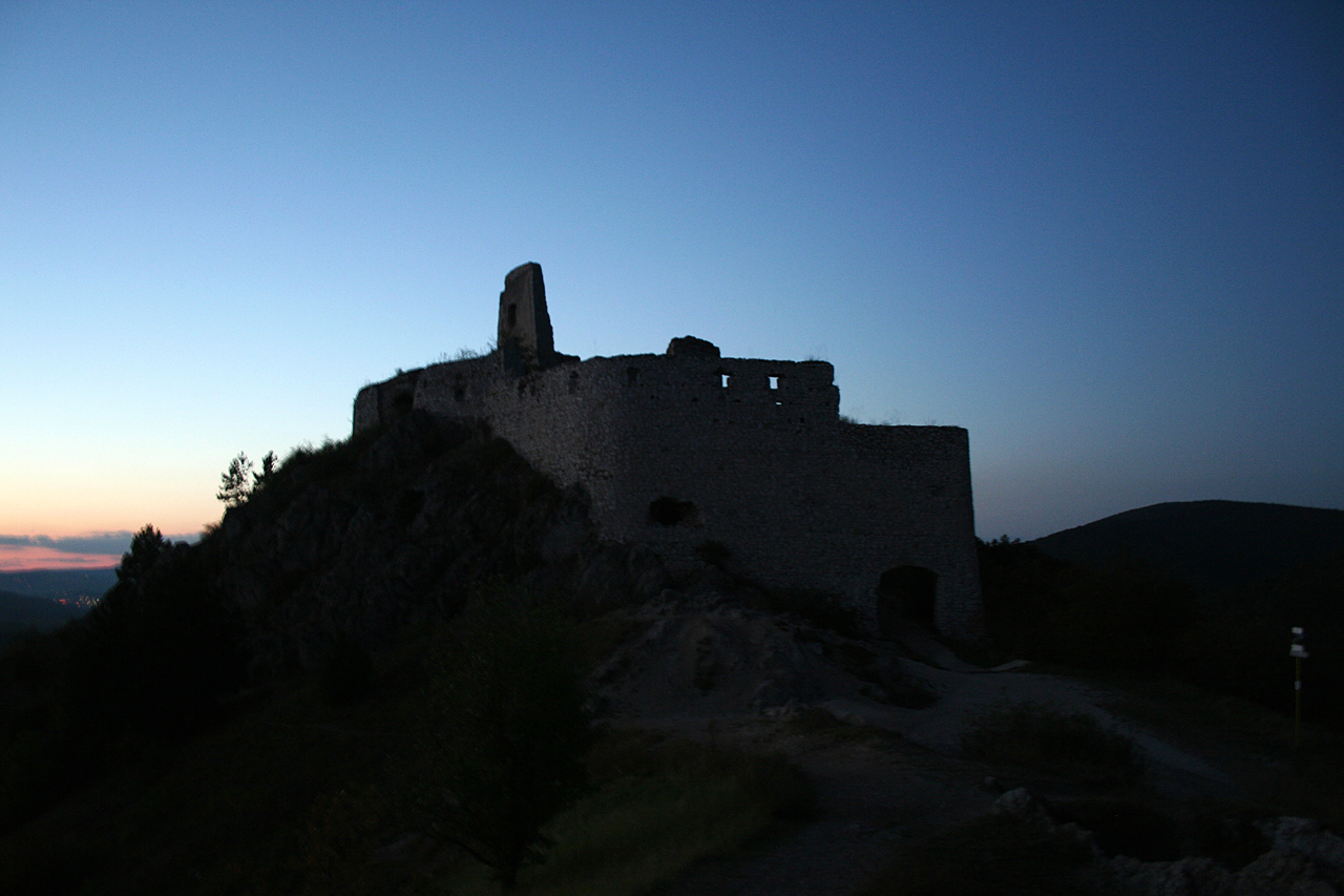 Cachtice Castle by night, I was really scared making this photo.